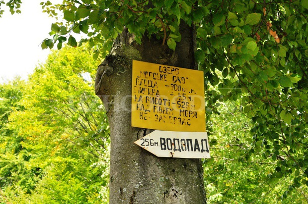 information table